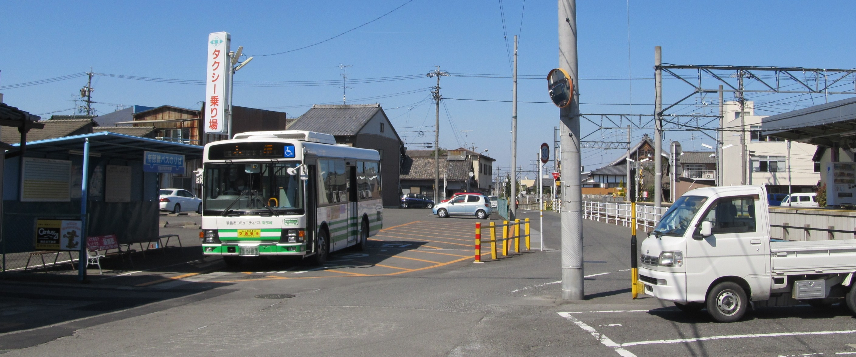 Hashima City Community Bus Nambu Line Hashima-shiyakusho-mae-eki Bus stop